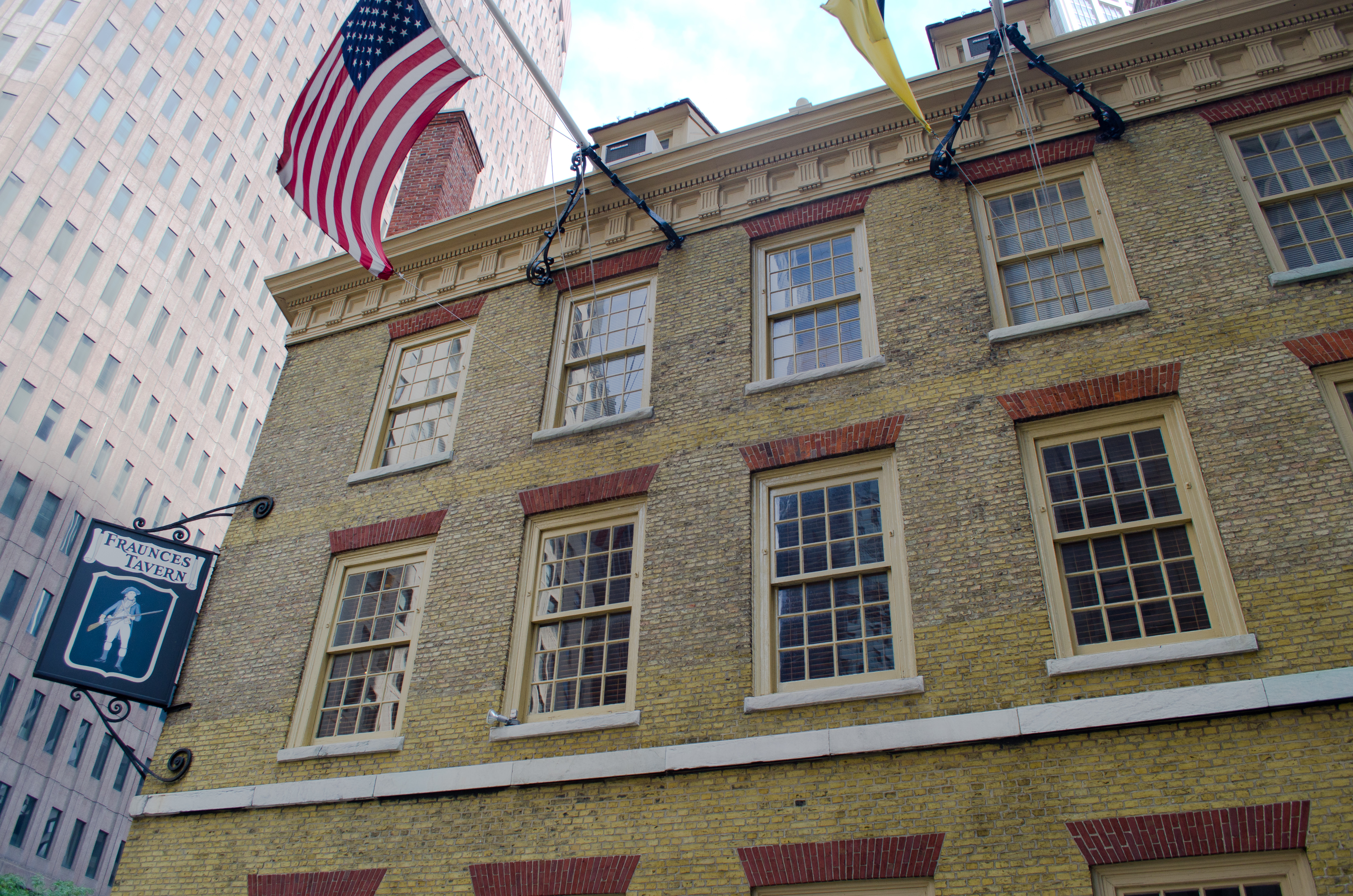 The south side of the Fraunces Tavern in New York City.